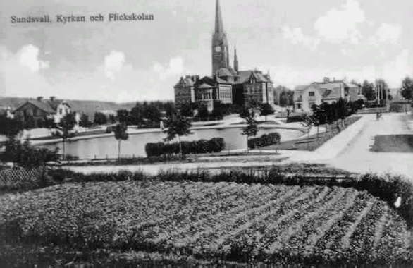 The small lake Bünsowska tjärn. Behind it the church, Gustaf Adolfs kyrka. Taken somewhere between 1890 and 1930, according to the source.